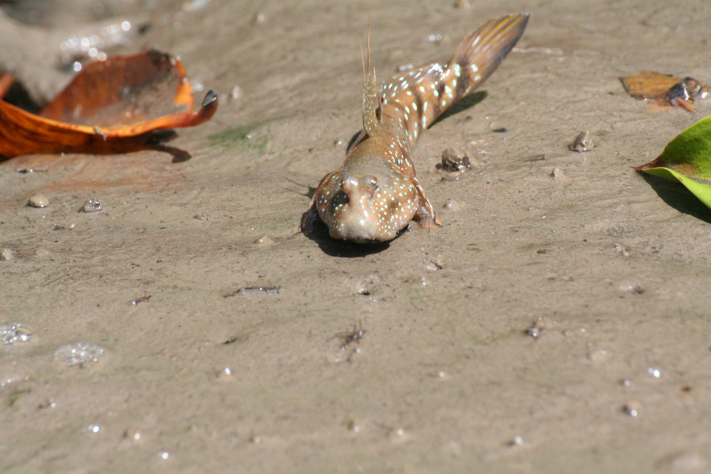 Blue-spotted Mudskipper (Boleophthalmus boddarti) in mangrove area of Tanjung Rhu (protected area)